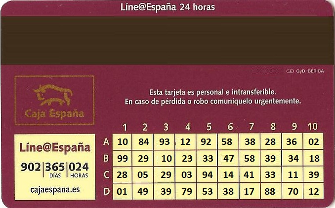 Plastic card with OTP (One Time Password) of Caja España